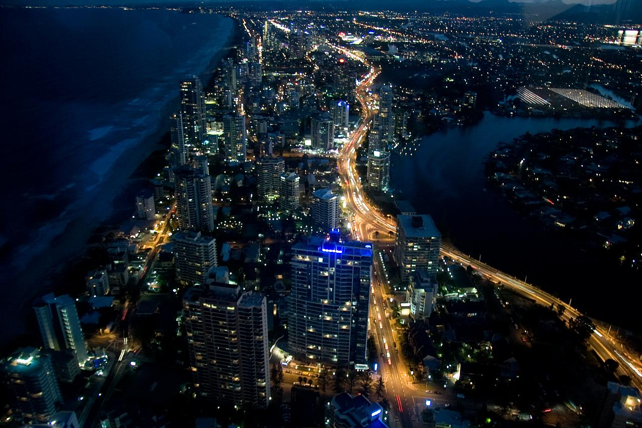 Gold Coast from QDeck at night